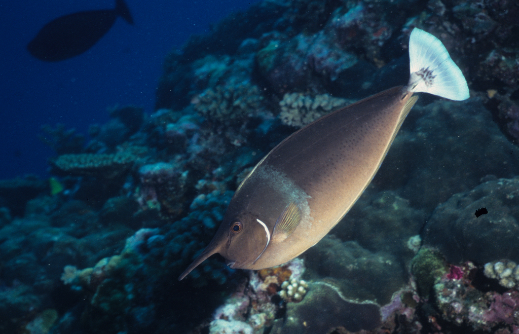 Unicorn surgeonfish photographed near Le Galawa Beach, Comoros.